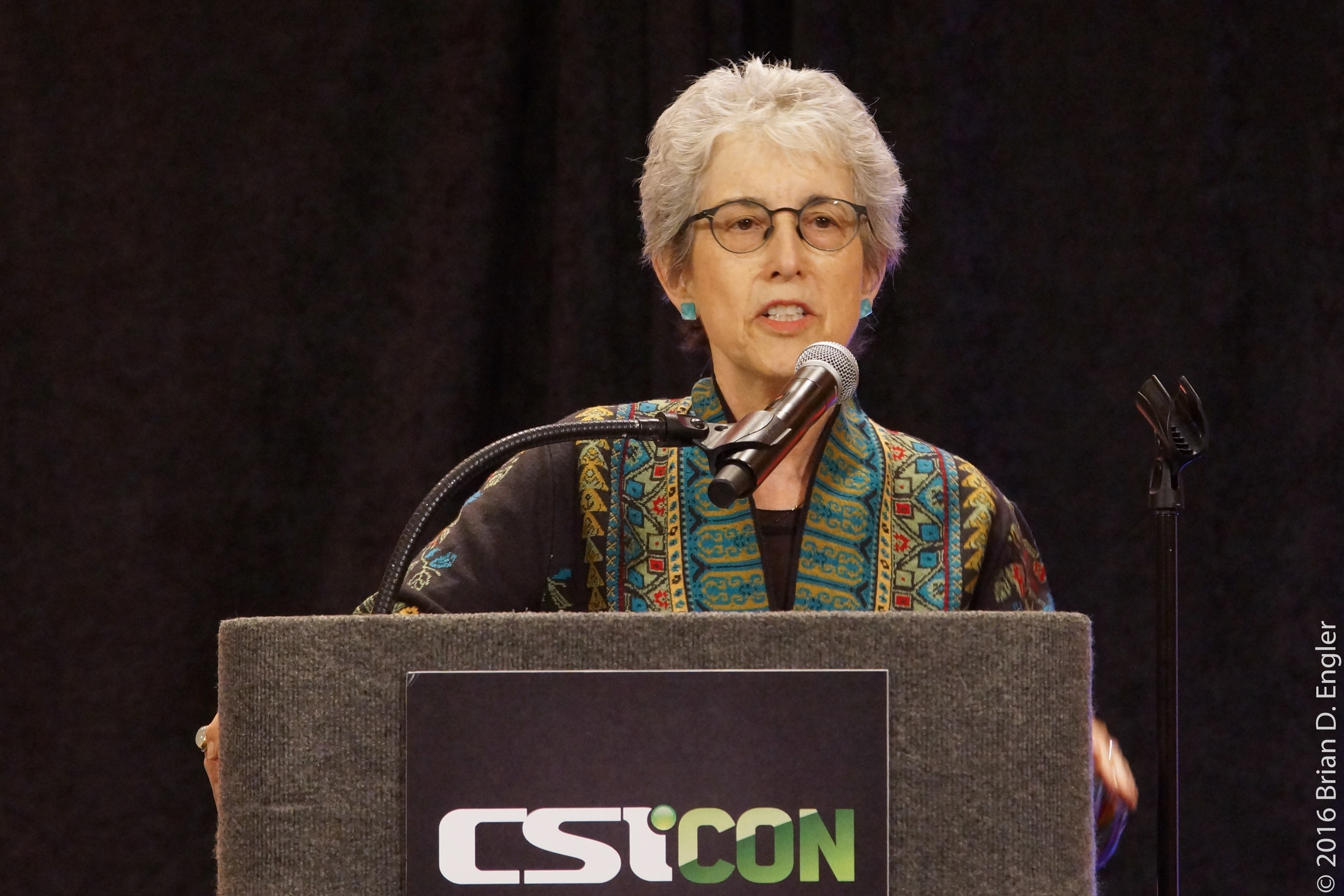 Carol Tavris addressed "Why We Believe - Long After We Shouldn't" at CSICon Las Vegas, October 29, 2016